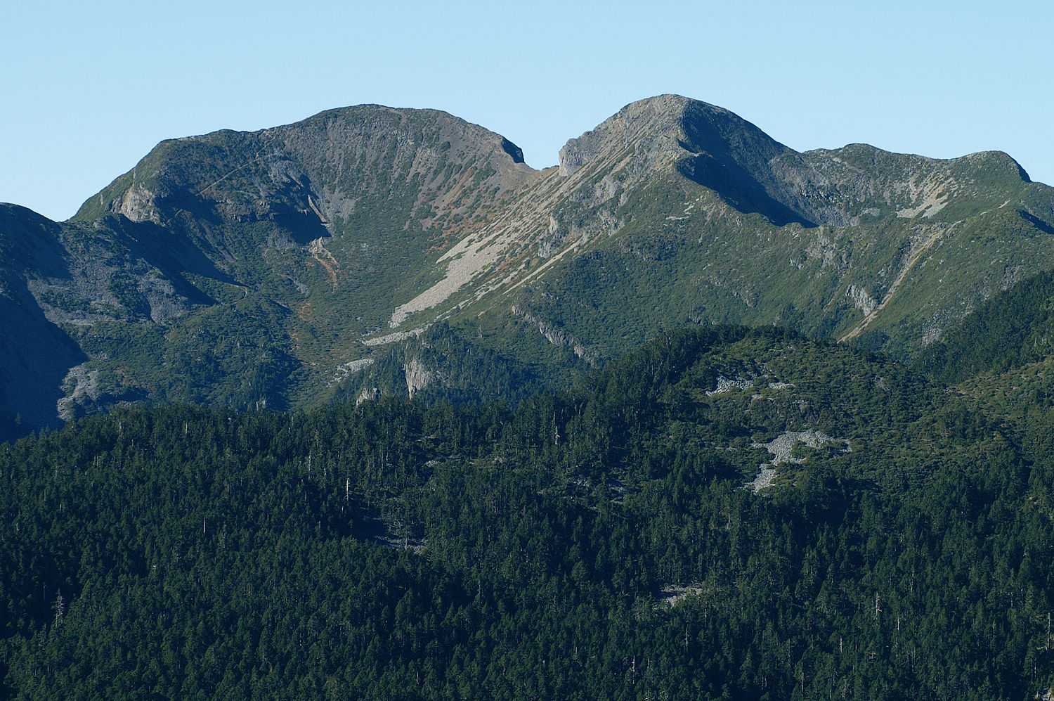 Hsueh Mountain, Taiwan 雪山主峰1號、2號圈谷